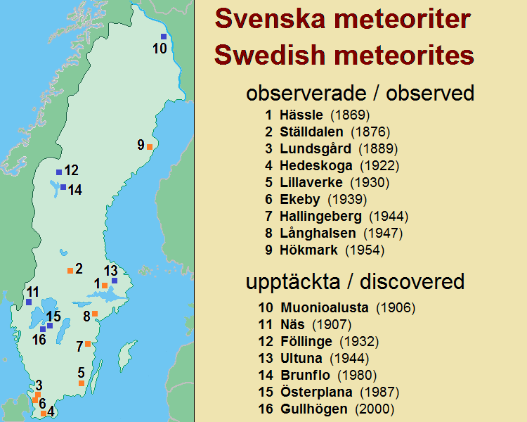 Map (rough) of meteorites in Sweden, own work composed from various mapreferences